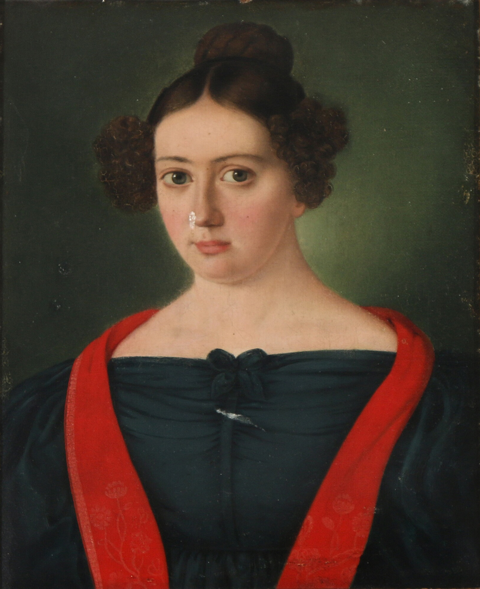 Emilie Antoinette was married to the Danish general Niels la Cour (1797-1876).